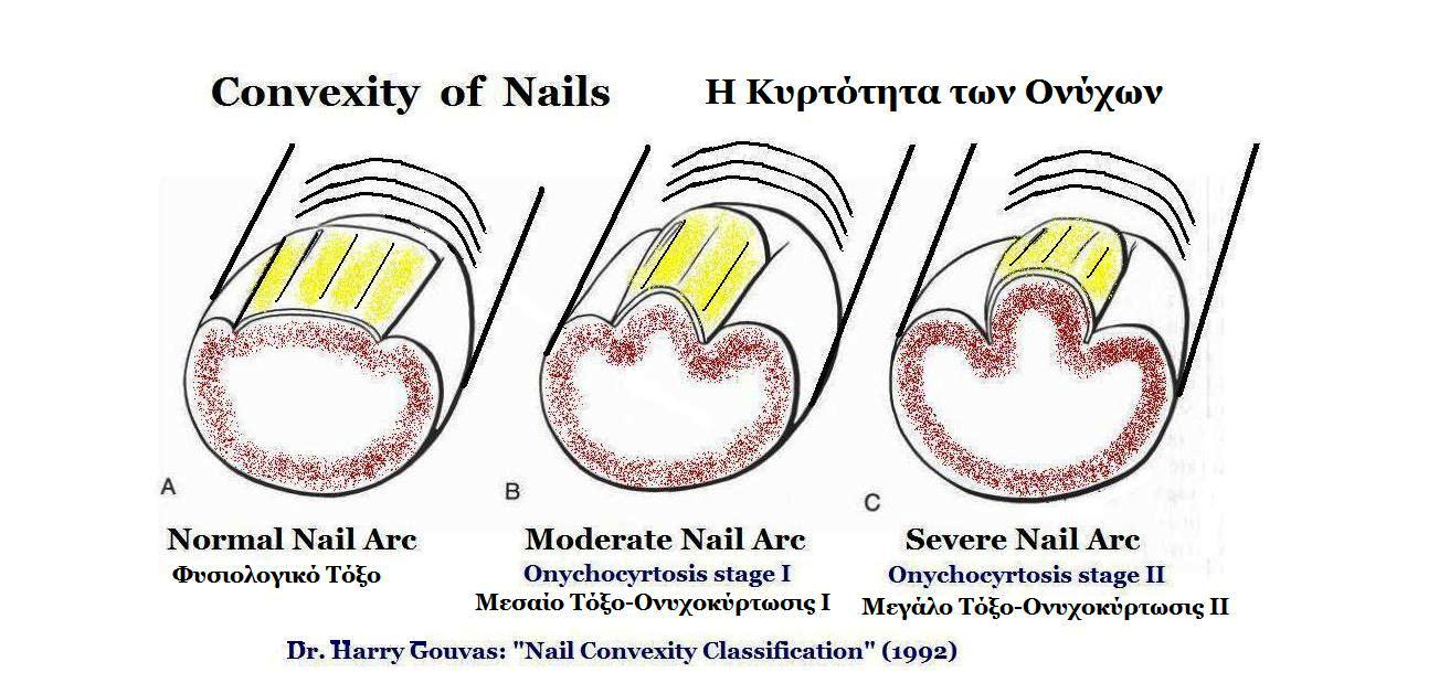 Convexity of nails